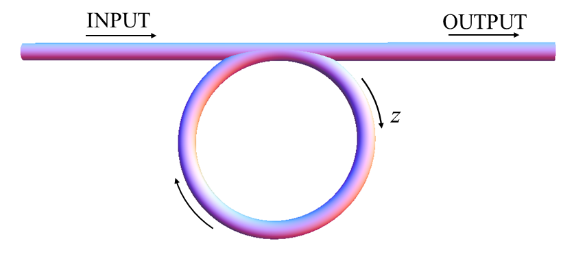 micro ring cavity - top view